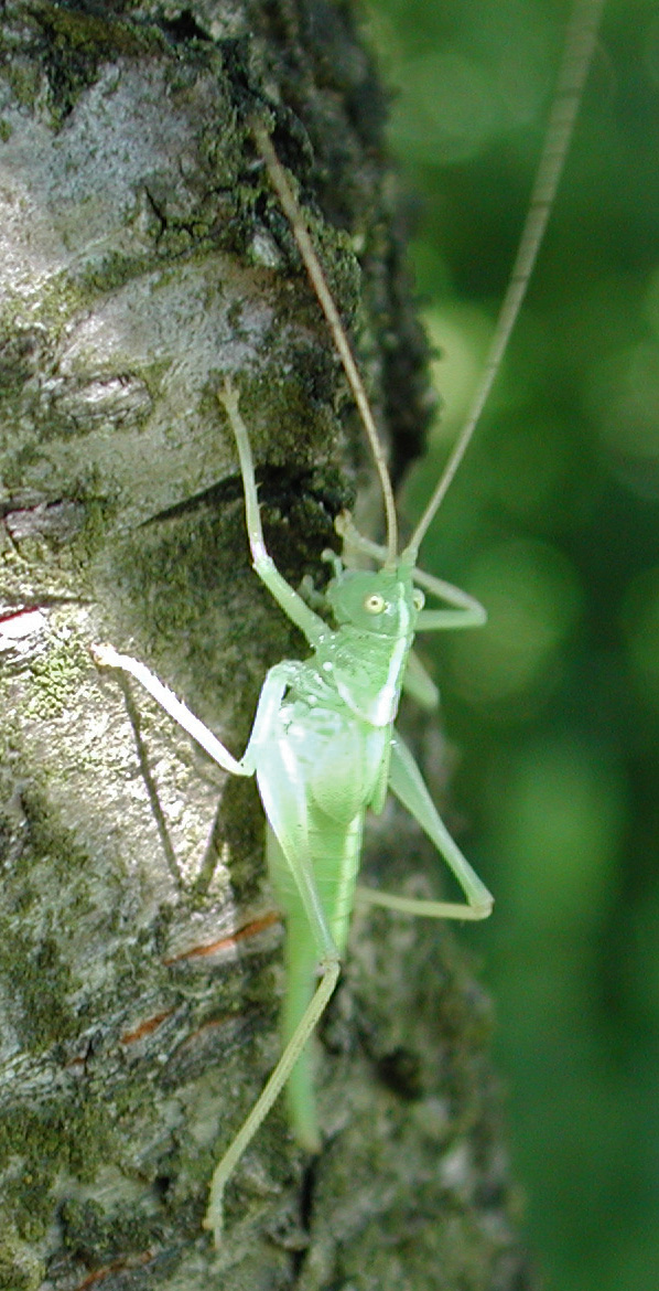 Meconema Thalassinum, female larva, garden in Hamburg, Germany